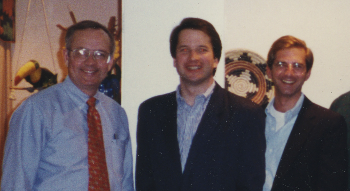 Independent-Counsel-Office-Group (circa 1990s). Ken Starr, Brett Kavanaugh, Alex Azar, and Rod Rosenstein are featured. Part of a slide show, "A Remarkable Career in Photos: Judge Kavanaugh to Testify Before the Senate"